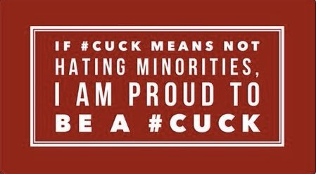 Stop Trump PAC